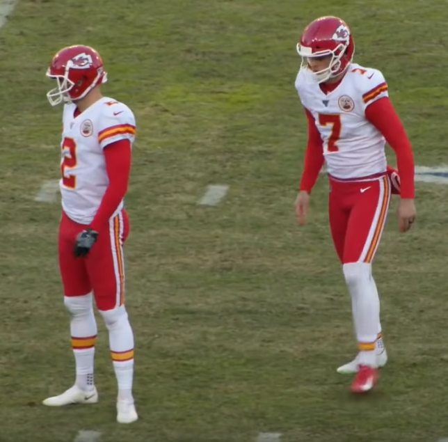 Dustin Colquitt 2019. Image taken from video Titans Mic'd Up vs. Chiefs (Week 10) | Sounds of the Game ~ 04:23